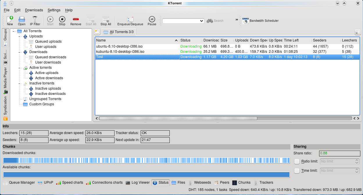 A simple Ktorrent's screenshot